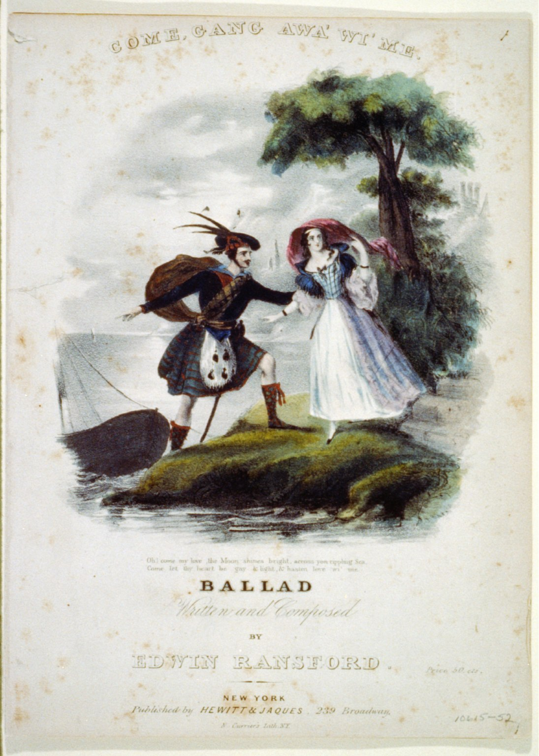 Title: Come, gang awa'wi' me: Ballad written and composed by Edwin Ransford Abstract/medium: 1 print : lithograph, hand-colored.